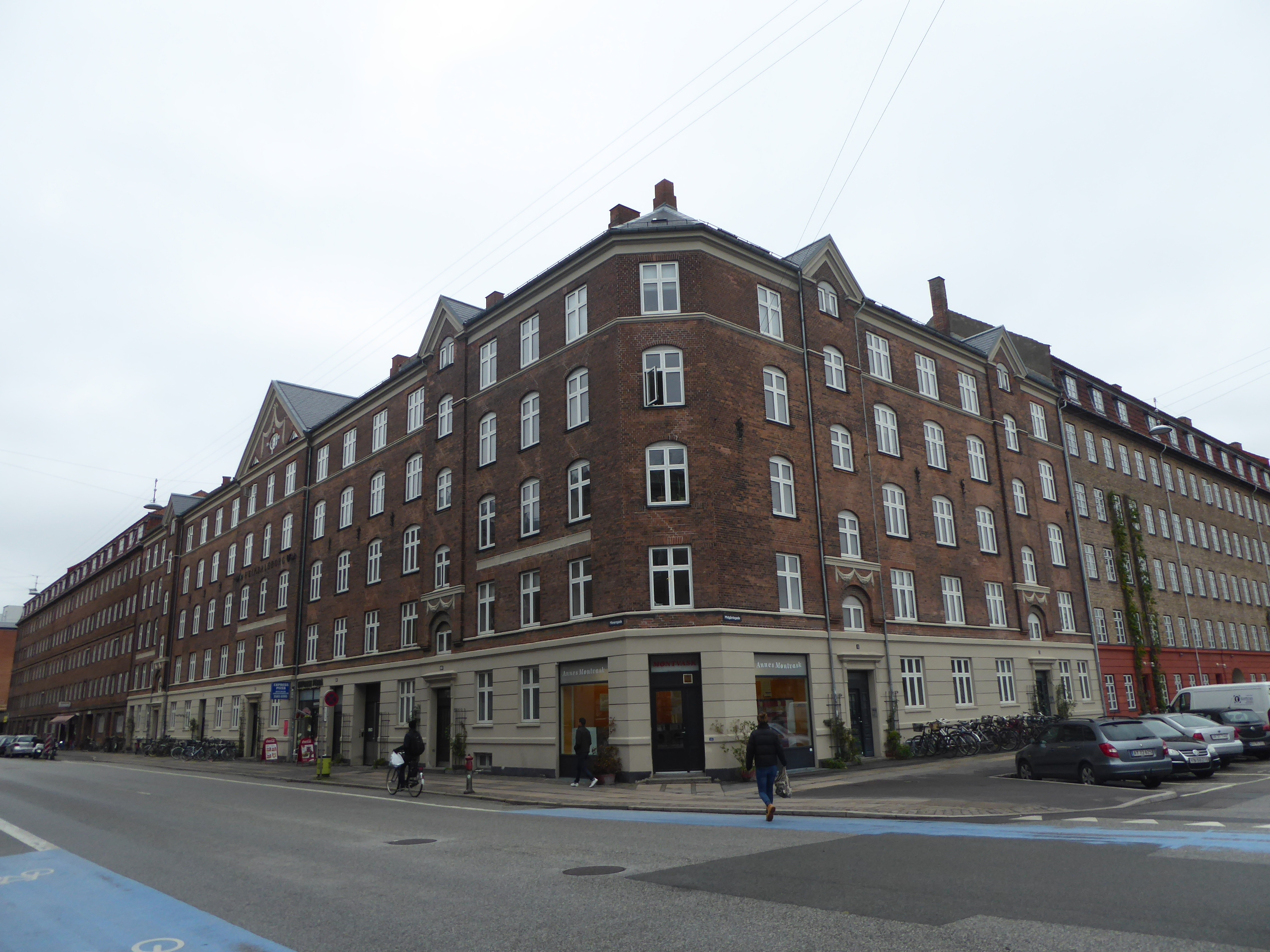 The building Heimdalsborg at the corner of Mimersgade and Midgårdsgade in Nørrebro in Copenhagen.